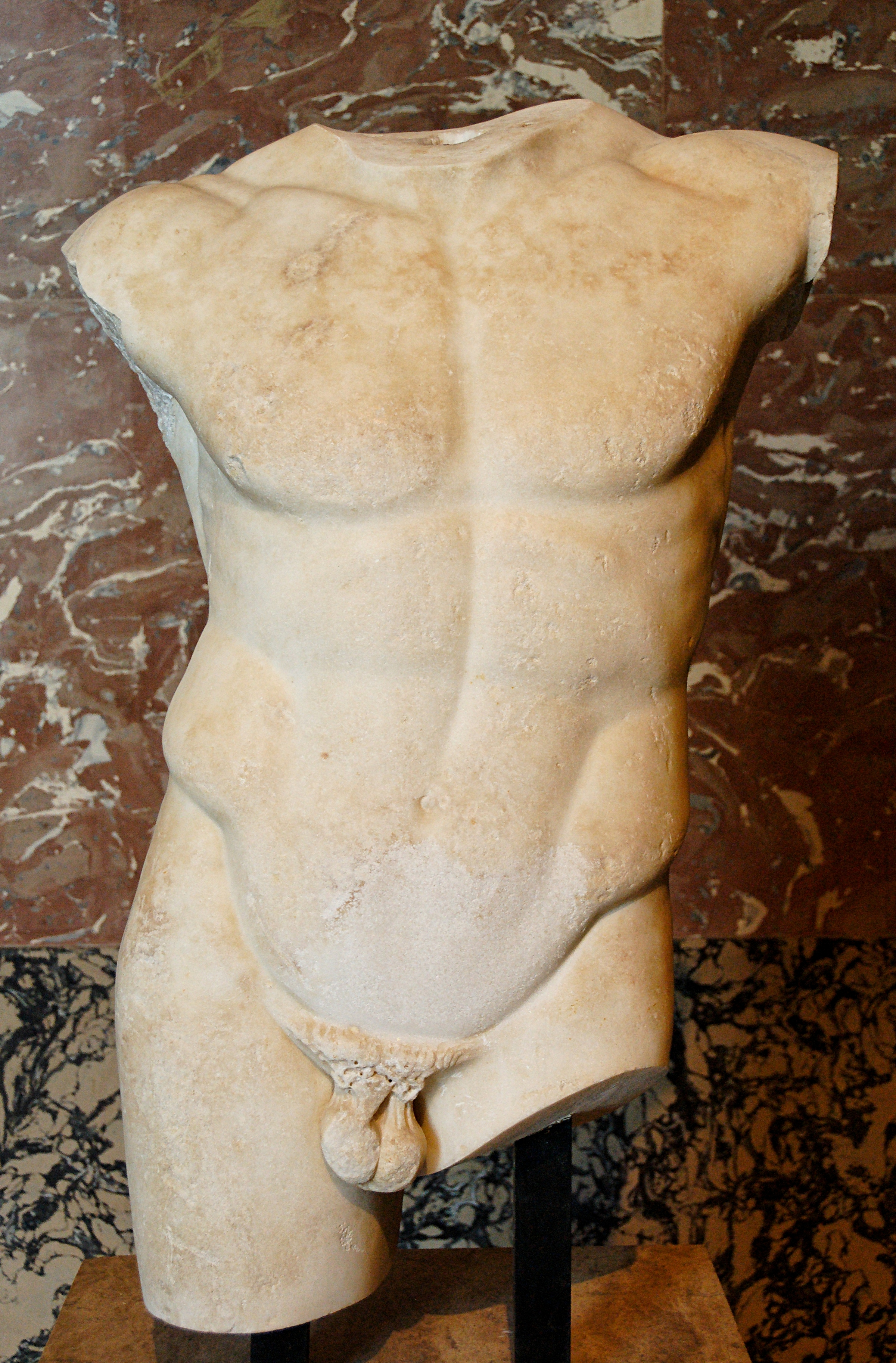 Torso of the Diadumenos type. Marble, Roman copy of the early 2nd century CE after a Greek original of ca. 440–430 BC. Previously restored as a Germanicus.